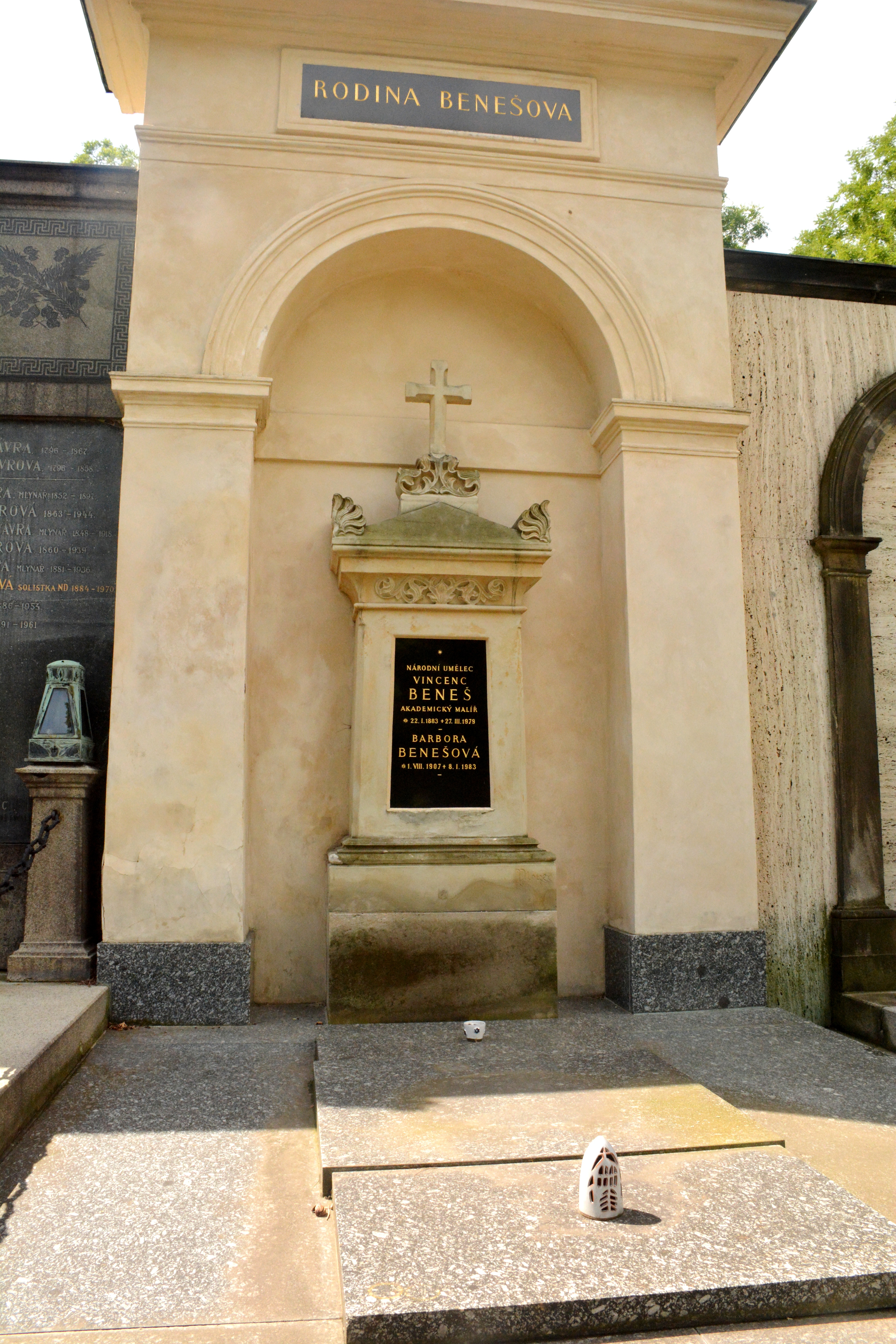 Tomb of Vincenc Beneš, Czech painter, at Vyšehrad Cemetery in Prague